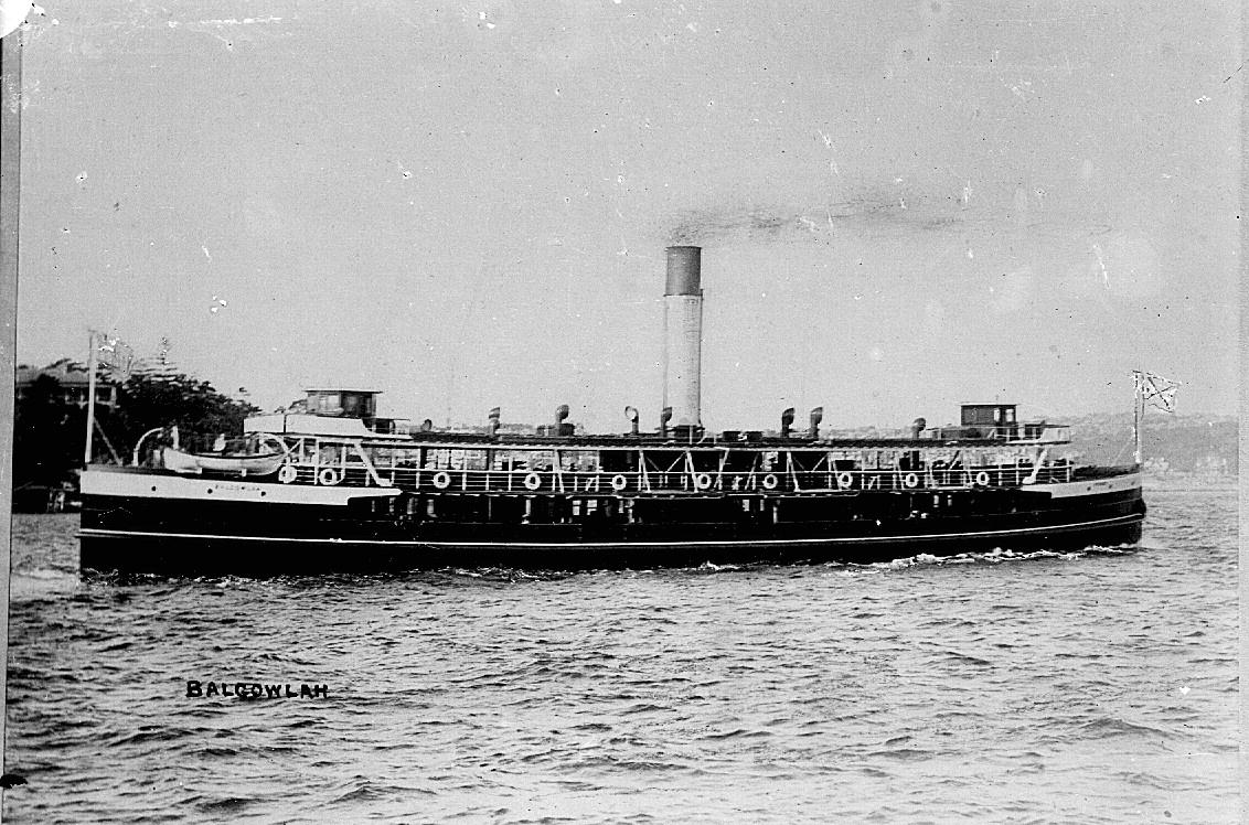 Manly ferry, near new Balgowlah of Kirribilli in her as-built shape - launched in 1912 and decommissioned in 1953.